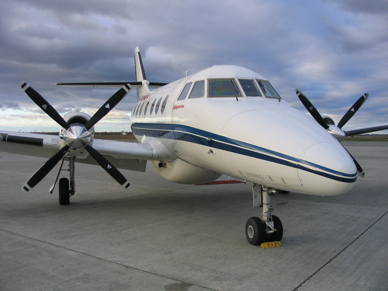 On the ramp in Sudbury Ontario Canada CYSB (Oct. 2005)